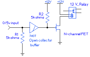 Edited version of "Opencollector_relaydriver.png" without the black background, pin numbers, and bunched-up font. I removed the title so it could be used in other contexts. Titles would normally be included in the wiki markup tags anyways.